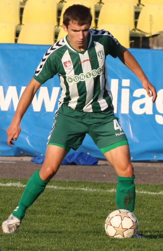 Roman Romanchuk playing for Žalgiris Vilnius.